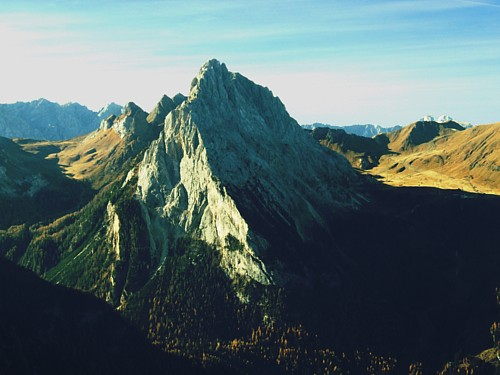 Colac (Il Collaccio) (2715 m) Picture taken and edited by user Idefix November 1, 2006